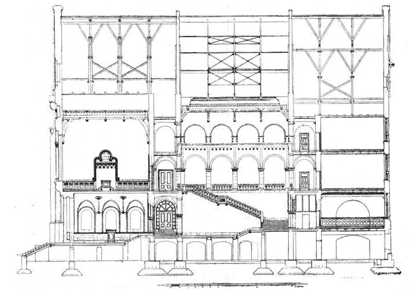 Section through Hovedbygningen (the main building) at Campus NTNU Gløshaugen, Trondheim, Norway, as it was originally planned, with a flat glass ceiling covering the main entrance hall. This was later changed into a vaulted ceiling - with light coming in directly through a large window in the south wall